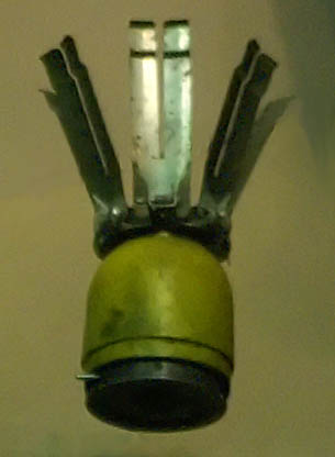 A BLU-3 Pineapple cluster bomblet at the Imperial War Museum. Photo by Max Smith (myself) and released into the public domain.